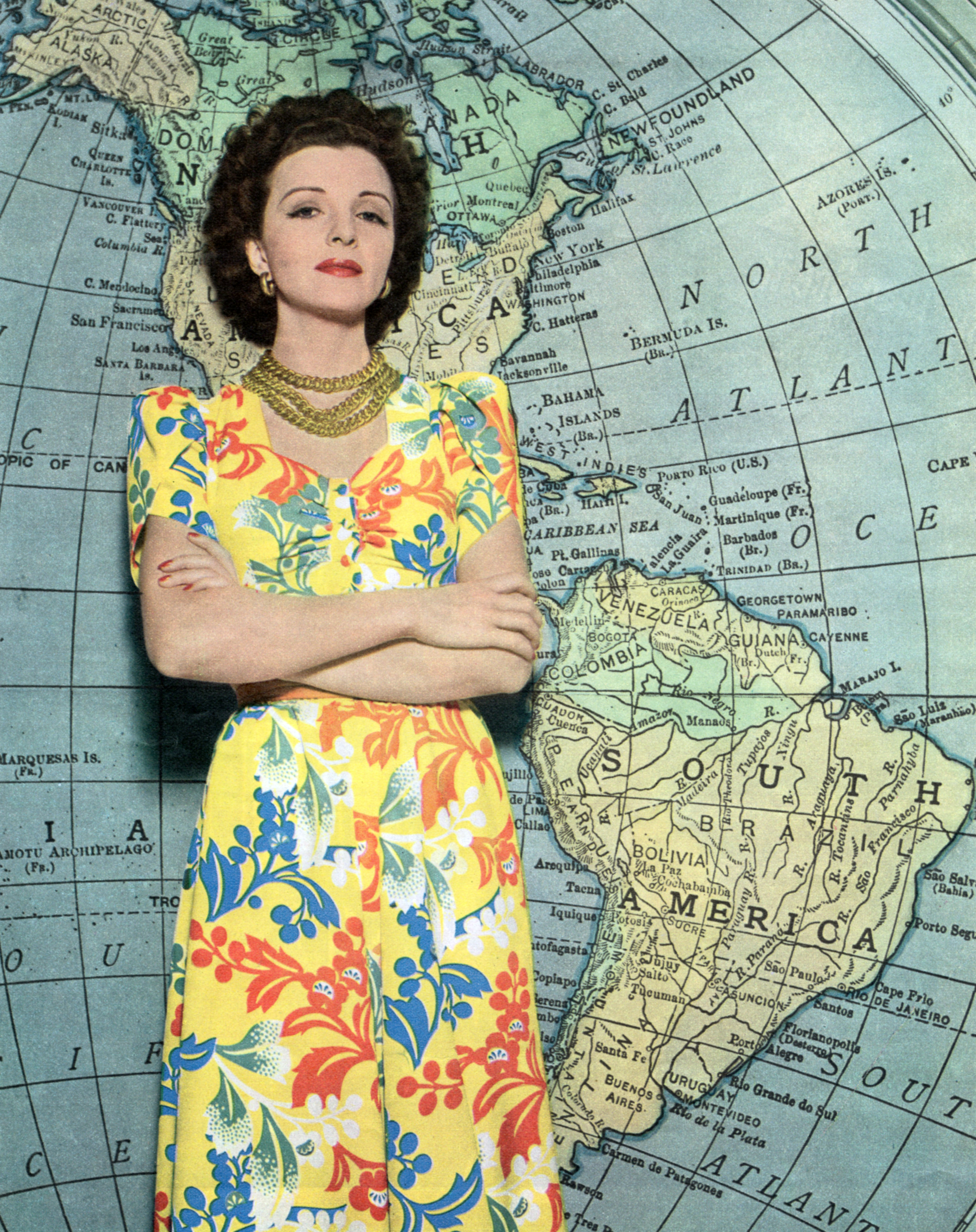 Photograph of actress Mona Maris in the "Interesting People in the American Scene" department, about the actress' role as an unofficial advisor to Hollywood related to the Good Neighbor Policy